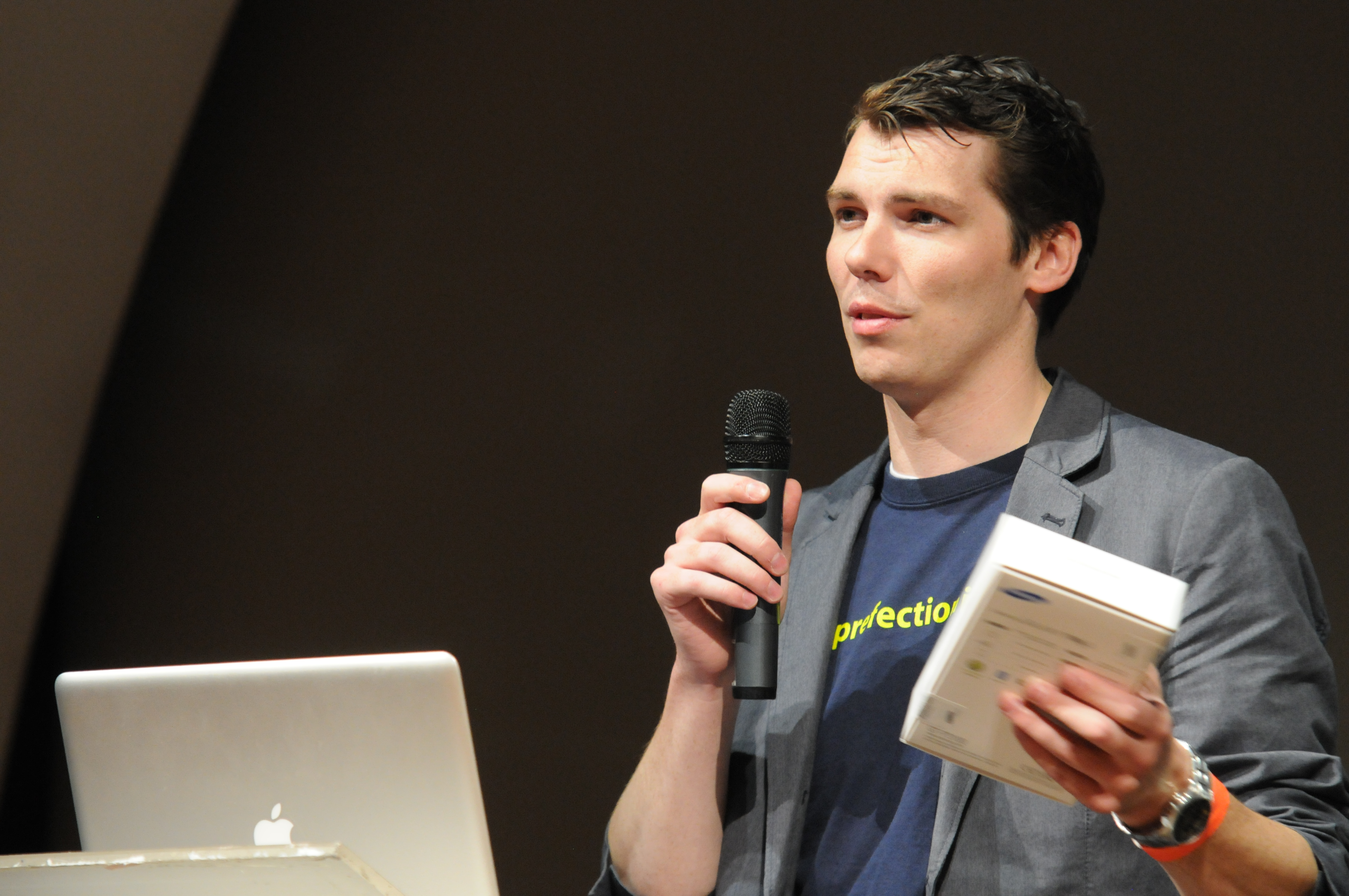 Filip Maertens (Taken on September 24, 2012)